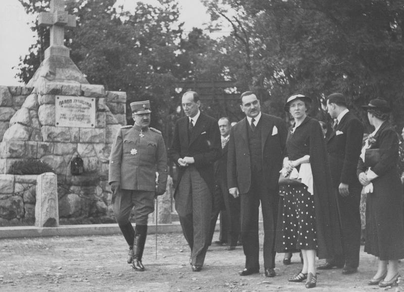 Polish Foreign Minister Jozef Beck (second from left) with his wife Jadwiga (fourth from left) accompanied by the Prime Minister of Yugoslavia Milan Stojadinović (third from left) and the Yugoslav War Minister General Ljubomir Marita (first from left) at the Tomb of the Unknown Soldier in Belgrade (1936)